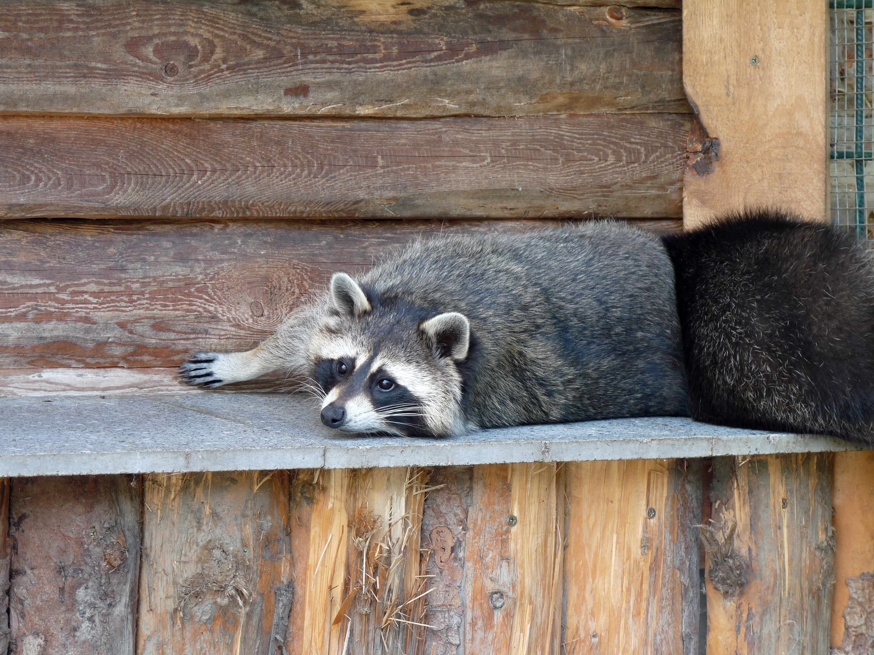 Racoon in the FaunaPark in the village of Lipová-lázně, Jeseník District, Olomouc Region, Czech Republic.